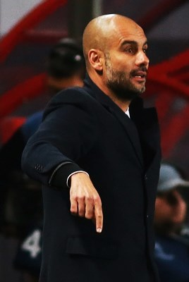 Josep Guardiola